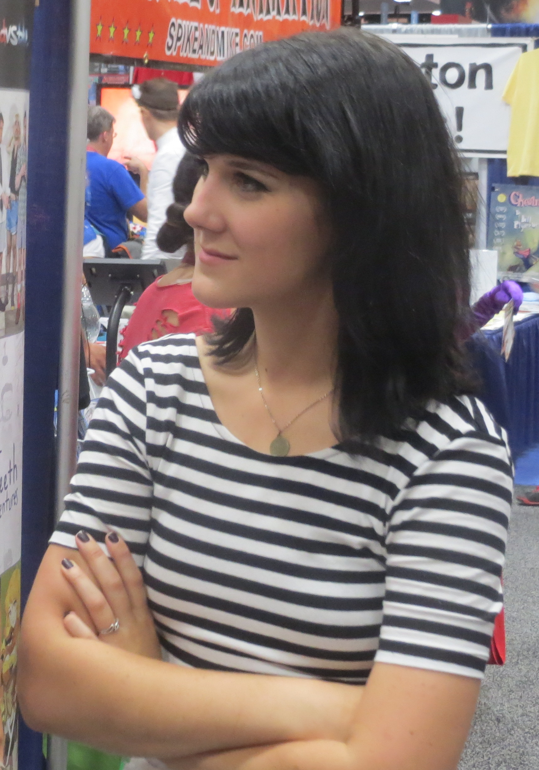 Arryn Zech, voice of Blake Belladonna on RWBY, outside of Rooster Teeth's booth at the 2014 Comic-Con International in San Diego.